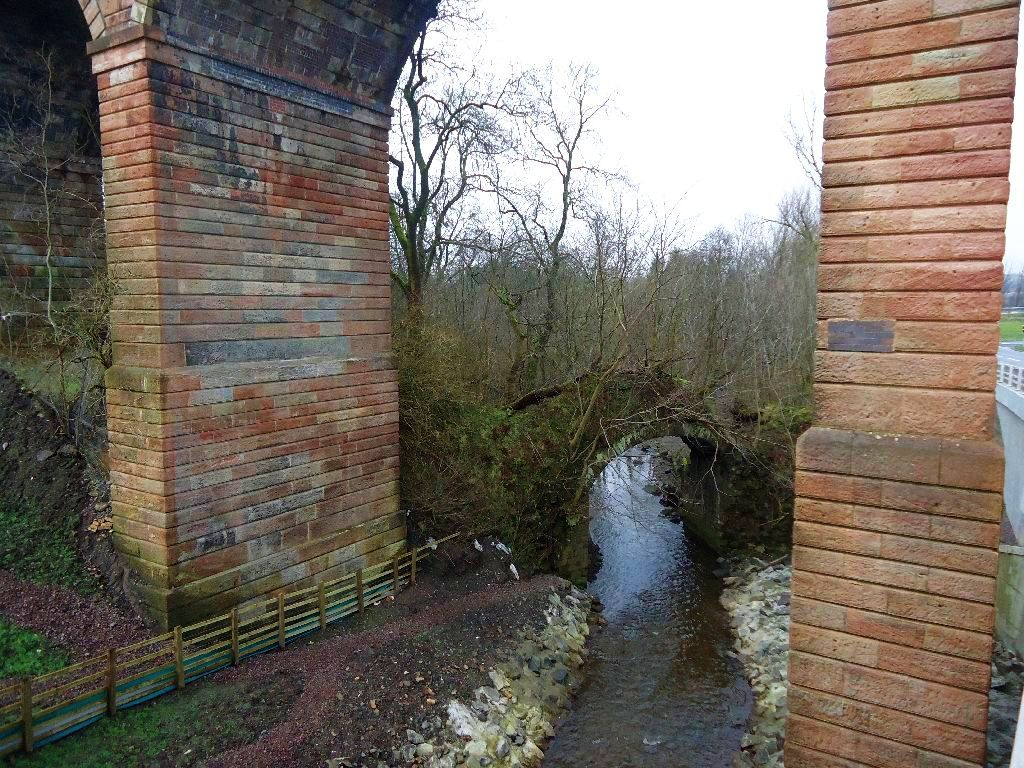 Castlecary, Red Burn through the arches